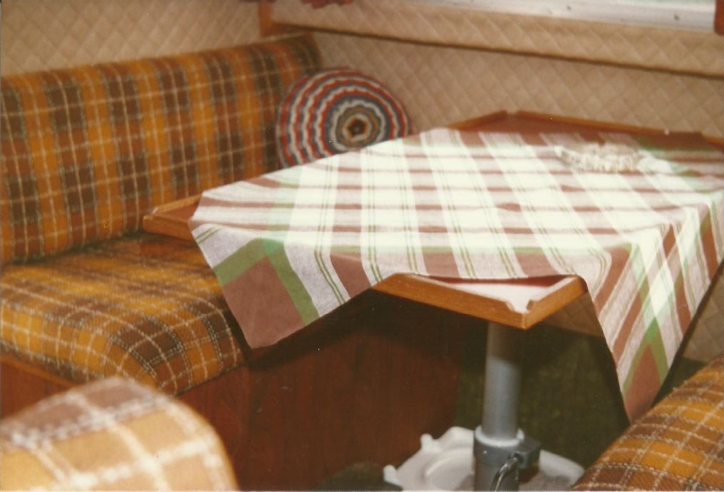 Picture 1980 Karmøy